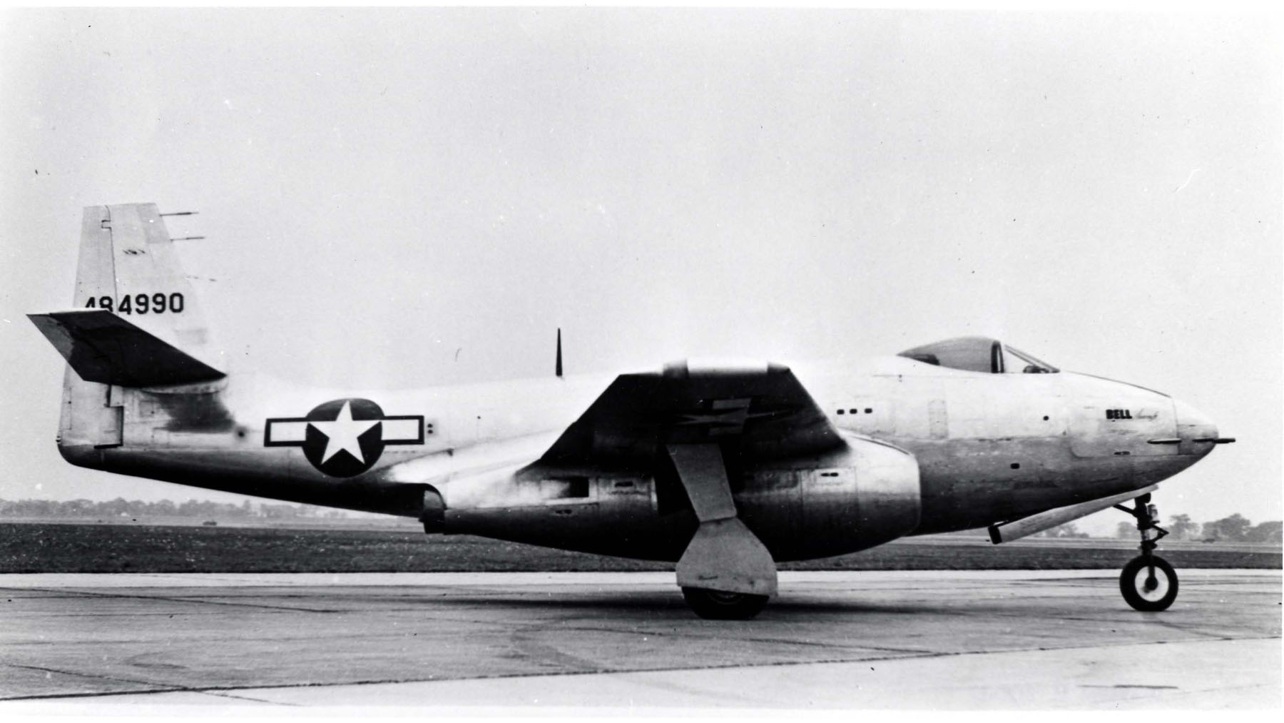 The first prototype (S/N 44-84990) of Bell XP-83, later XF-83.